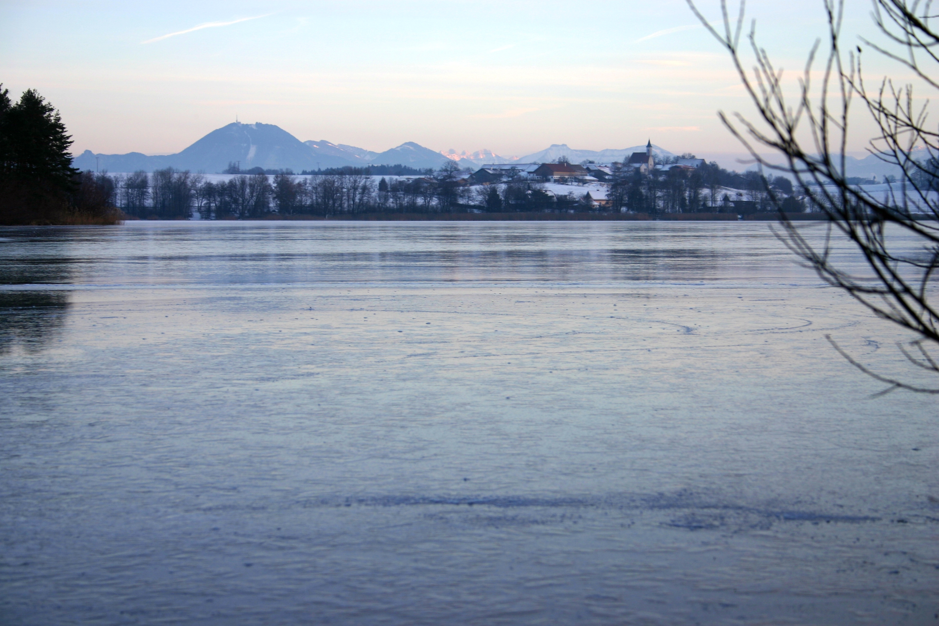 Lake Abtsdorfer See in Winter 2003 viewing SE